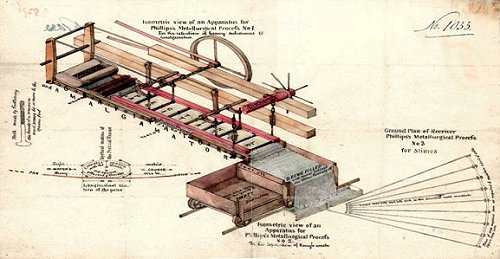 Example of an early Australian patent - Victorian patent 1033 An invention for "An improved apparatus for separating metallic ores from gangues, and the metals from ores and gangues"